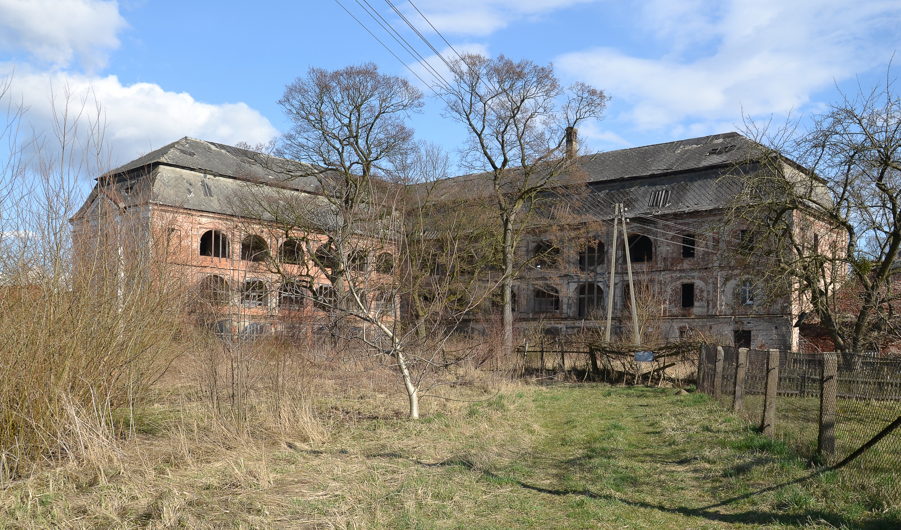 Palace in Bycina (Bitschin, Fichtenrode), Upper Silesia